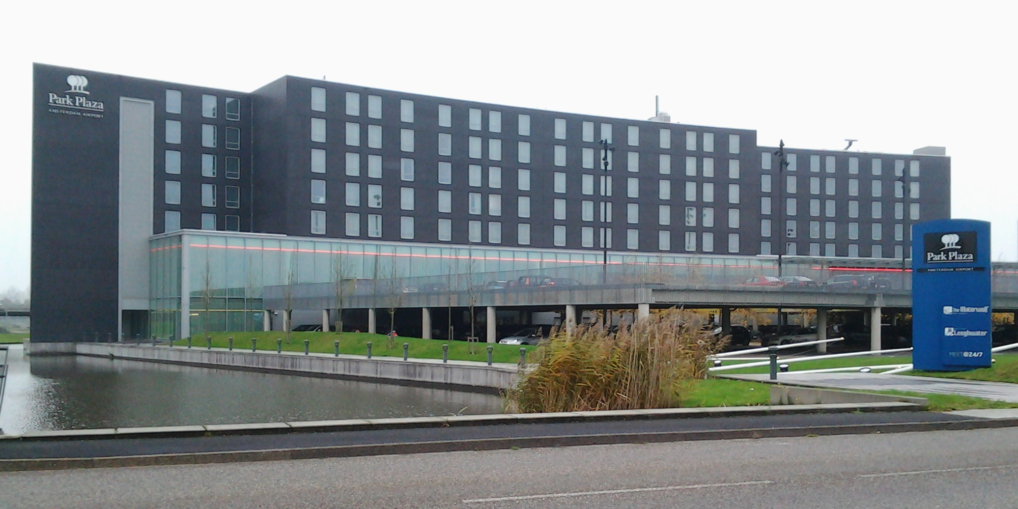 Park Plaza Amsterdam Airport hotel.